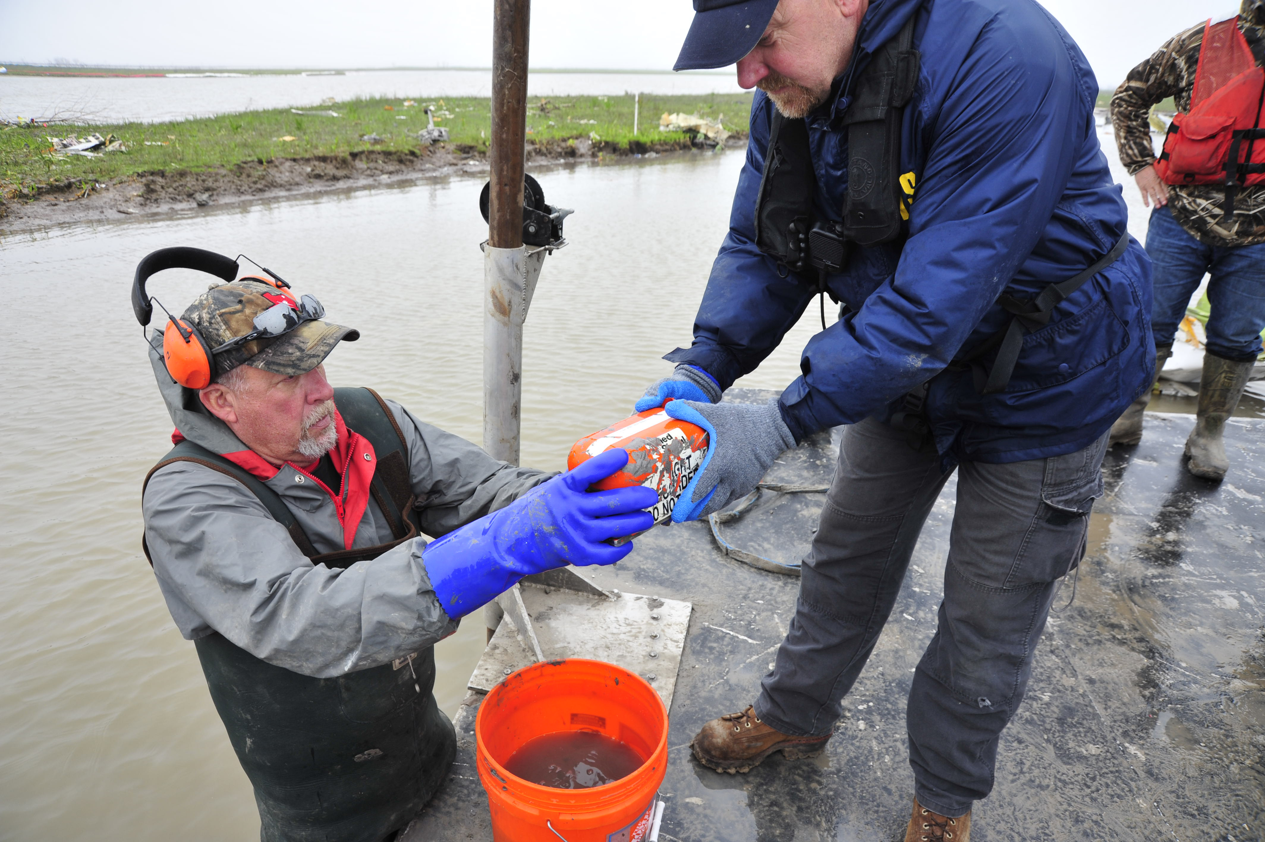 In this photo, taken on March 3, 2019, NTSB investigators and member of the recovery team retrieving the flight data recorder of the Atlas Air Flight 3591, a Boeing 767-300 cargo jet, that crashed in the muddy marshland of Trinity Bay Feb. 23, 2019, about 30 miles from Houston’s George Bush Intercontinental Airport. (NTSB photo)